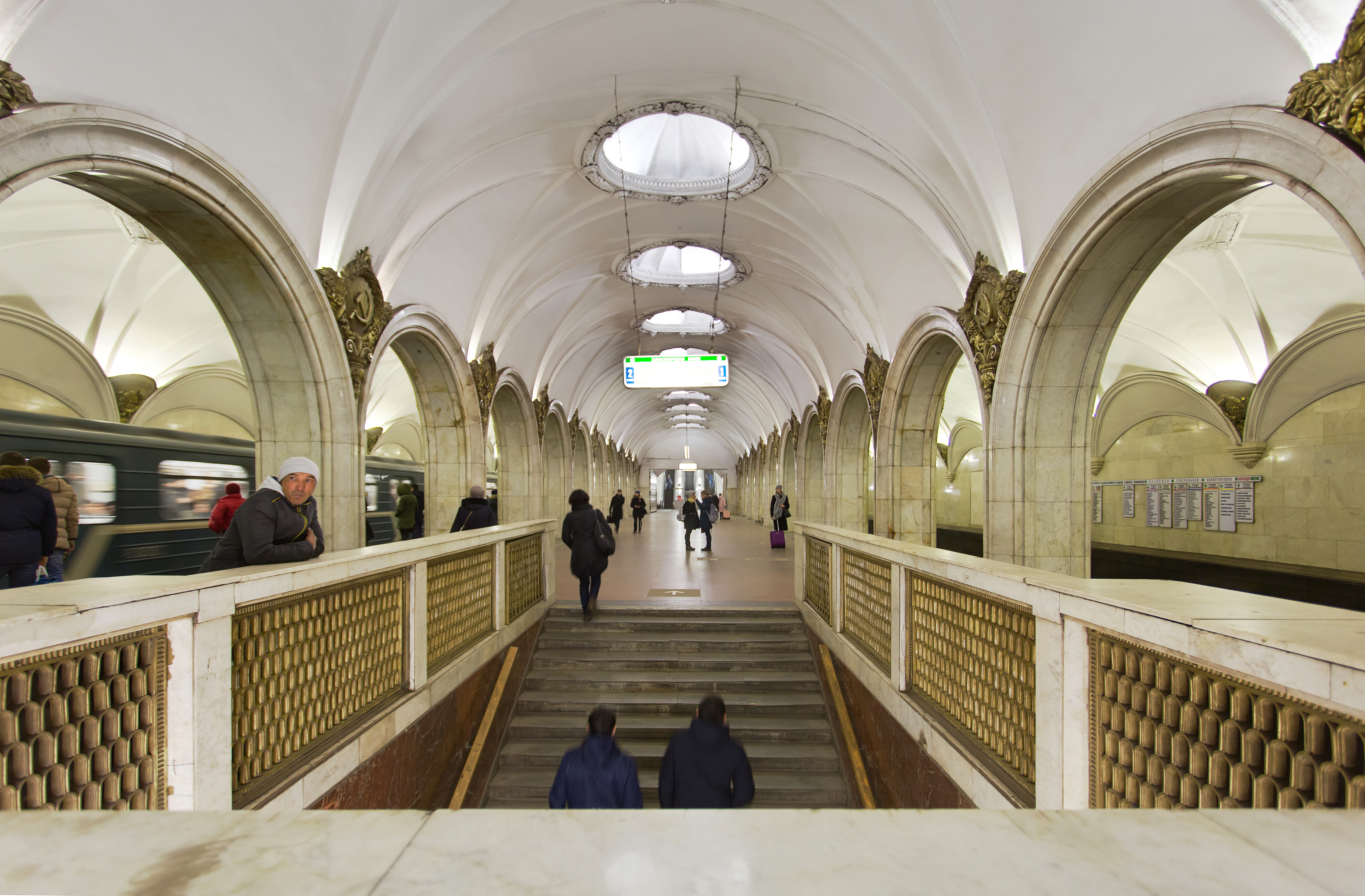 Paveletskaya-Radialnaya metro station, Moscow, Russia